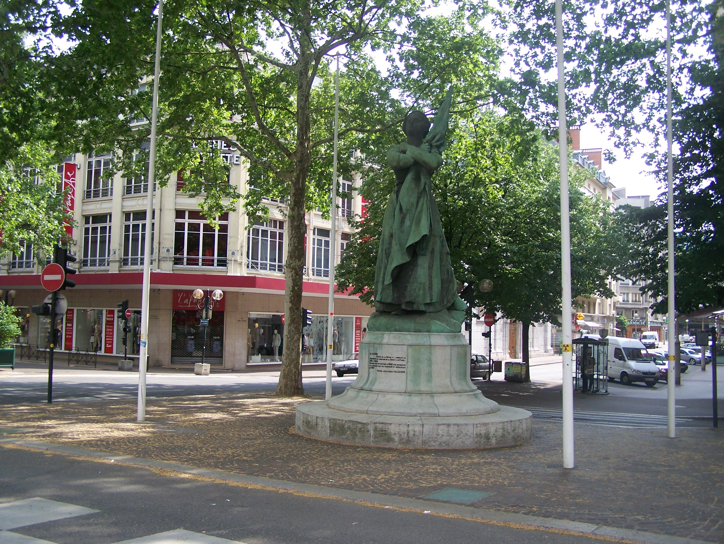 The statue of La Sasson in the city of Chambéry, Savoie, France.